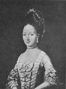 Anna Brown (Fenwick), wife of Danish merchant and shipowner David Brown